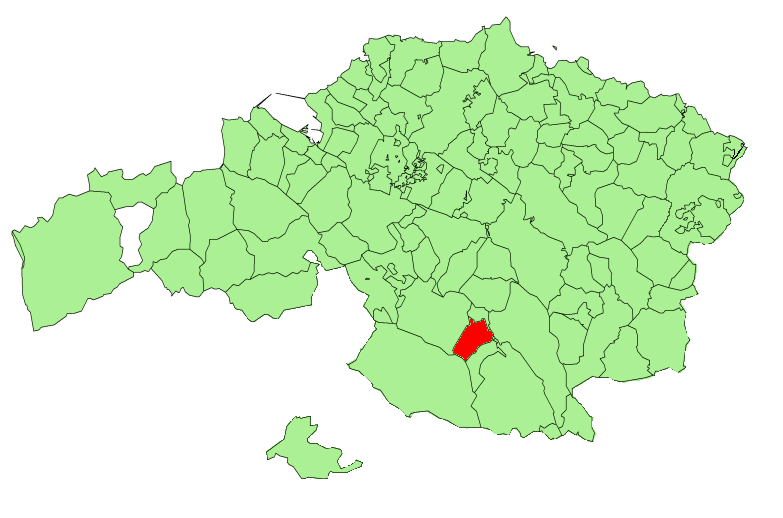 Artea municipality in the province of Biscay